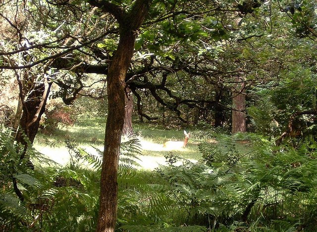 Deer in Norley Inclosure